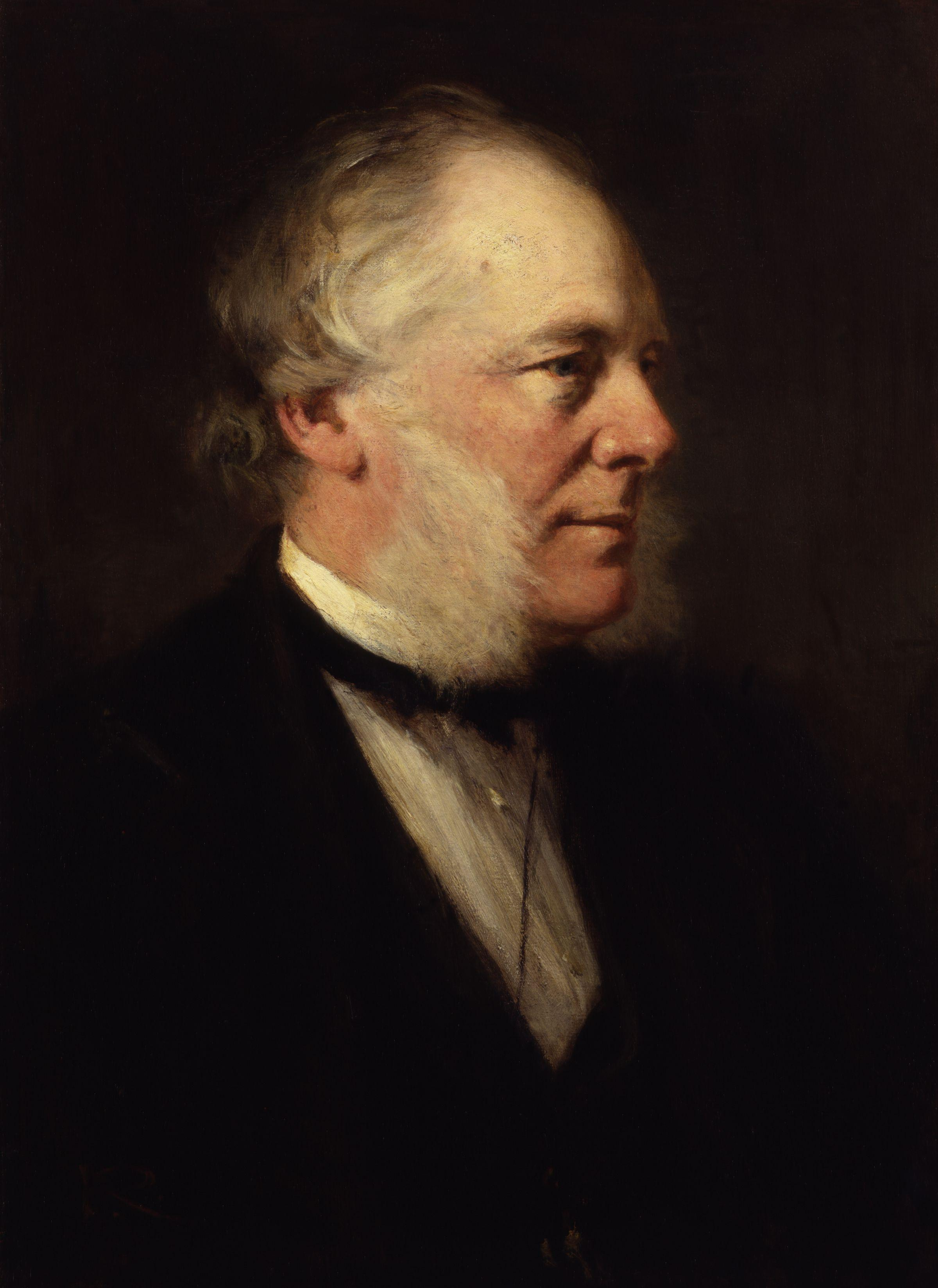 work given to the National Portrait Gallery, London in 1904. All images in this batch have been confirmed as author died before 1939 according to the official death date listed by the NPG.